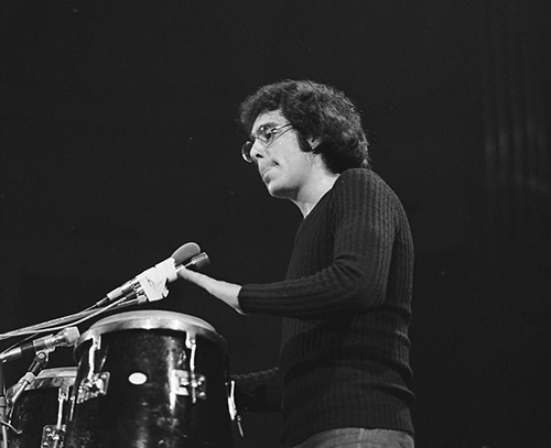 Joe Lala, percussions & vocals with Manassas, Dutch TV programme Toppop, Recordings 22 March 1972, Broadcast 10 June 1972